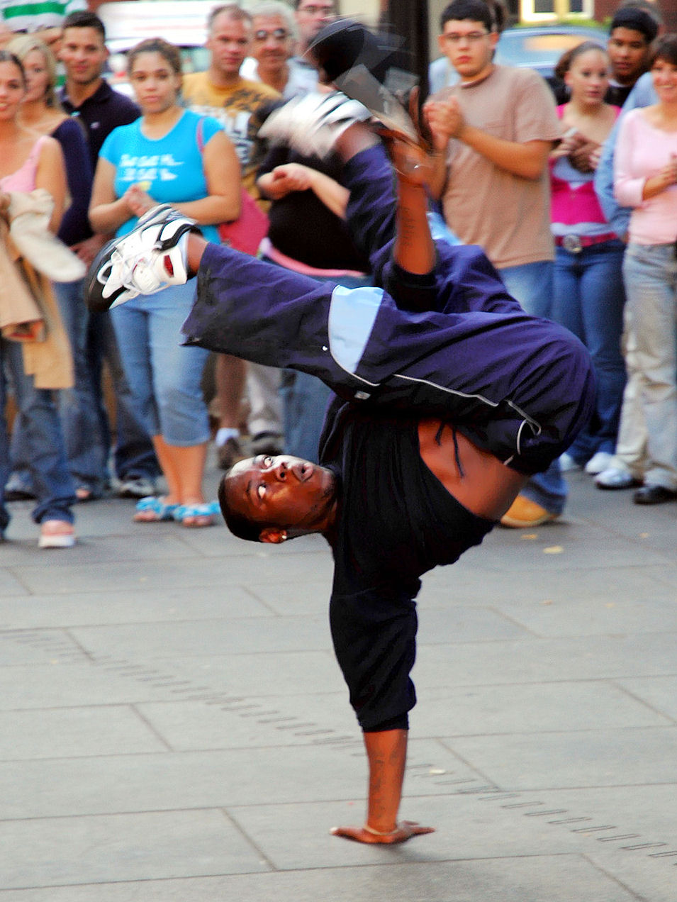 Breakdancer. Out 'n about in Faneuil Hall, Sunday, September 11, 2005